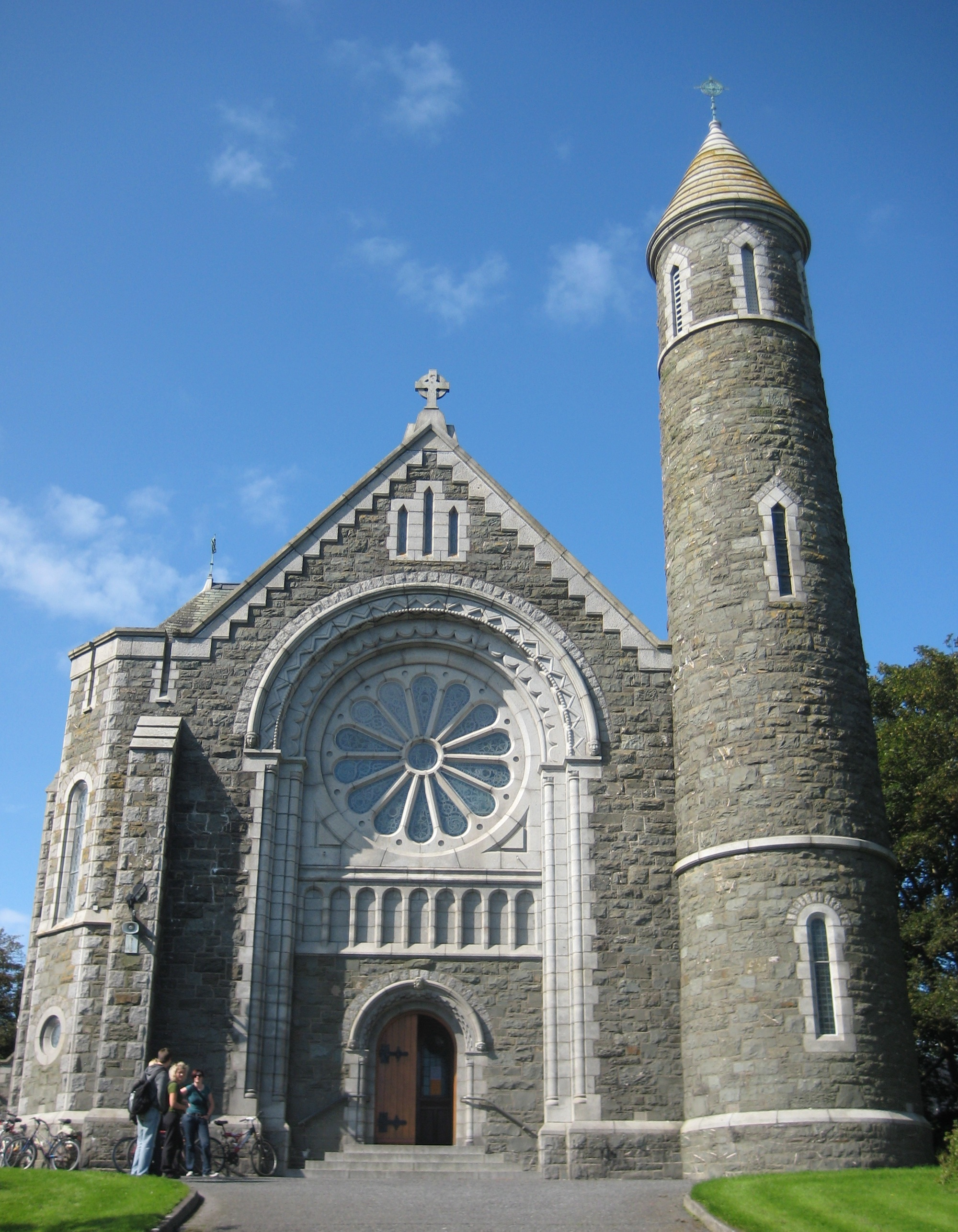 Church of St. Oliver Plunket, Blackrock, Co. Louth, Ireland